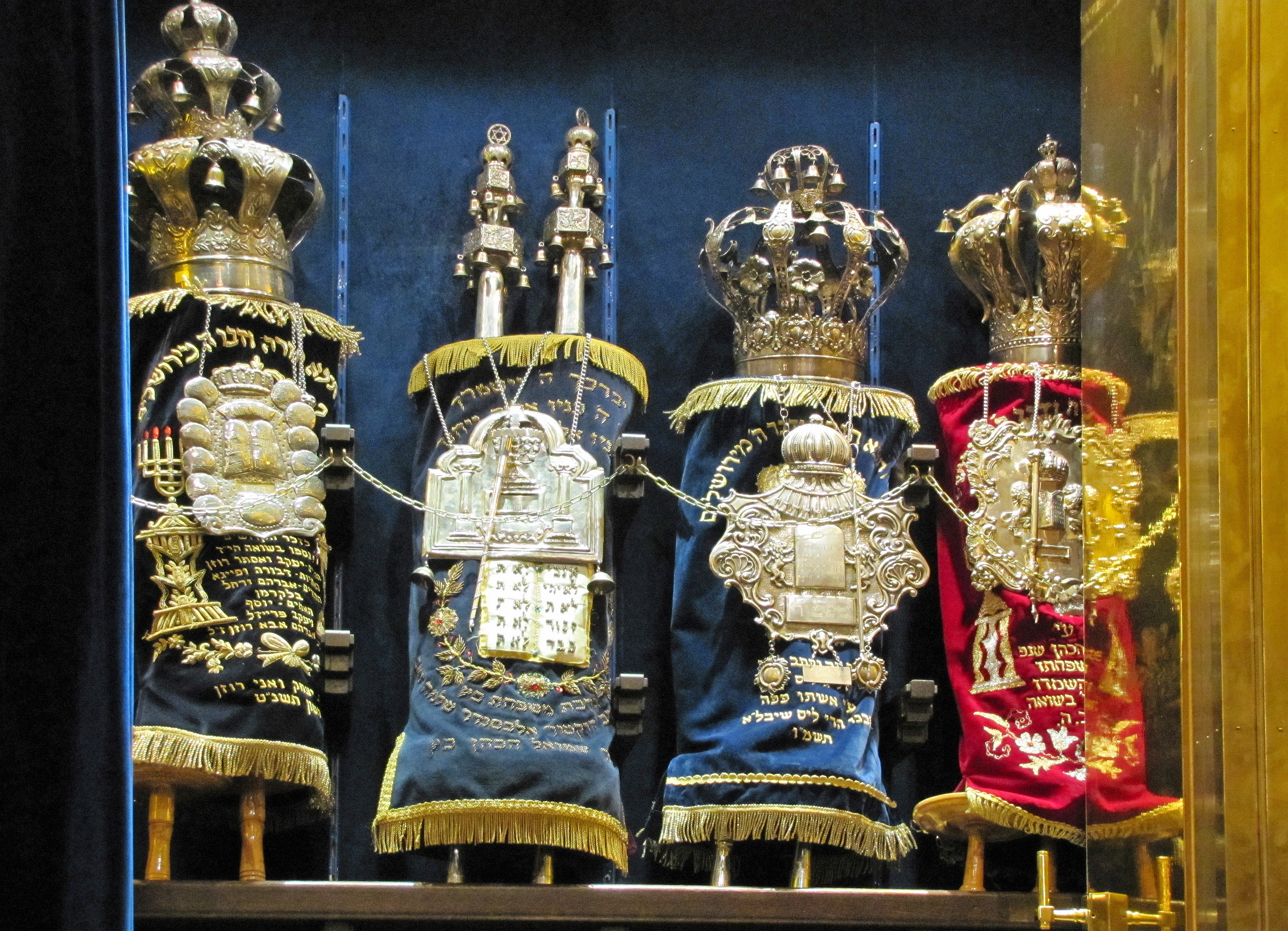 Part of torah ark, "Westend-Synagoge", Frankfurt am Main, Germany.